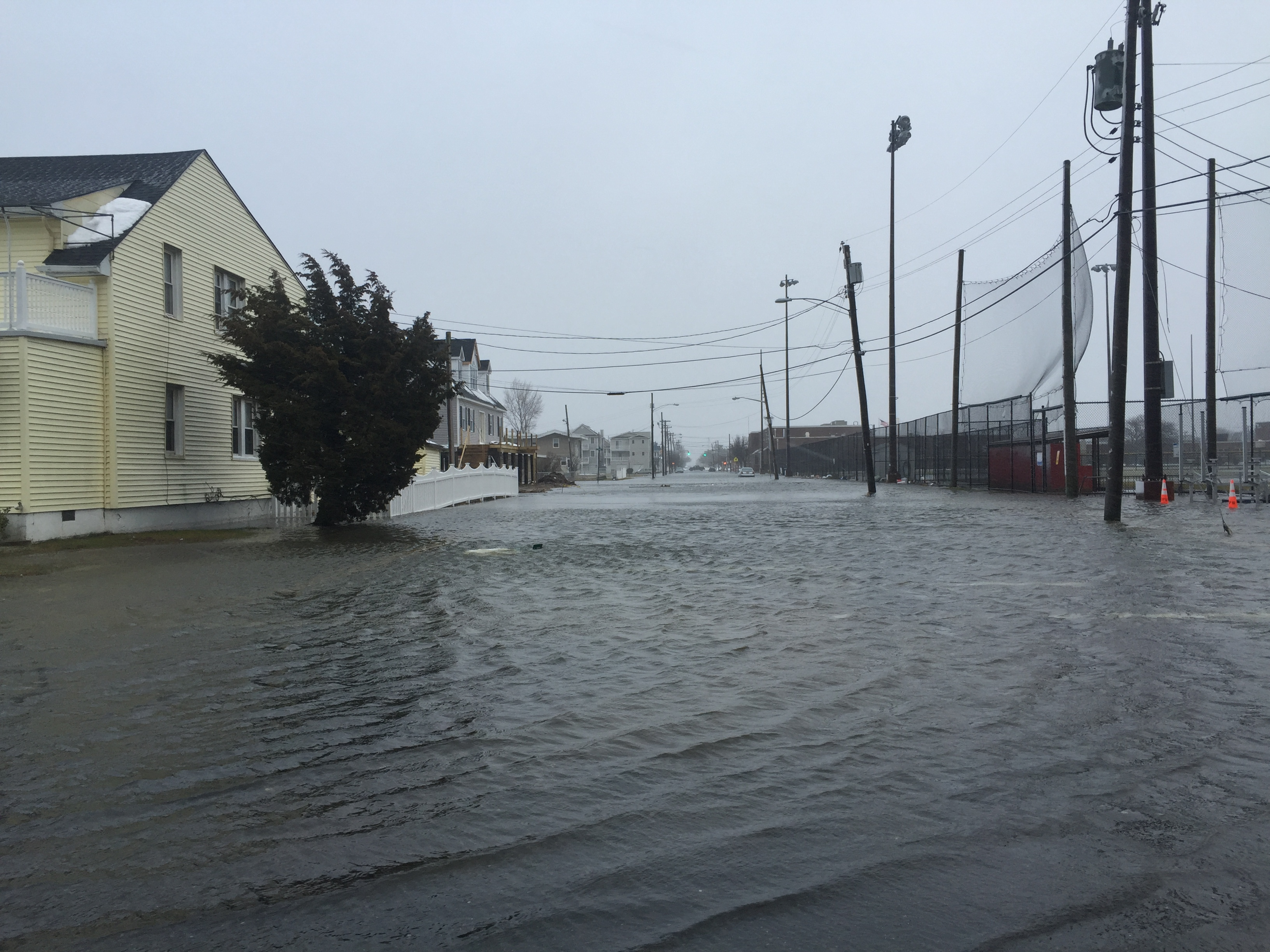 Flooding along 5th Street in Ocean City during the Blizzard of 2016